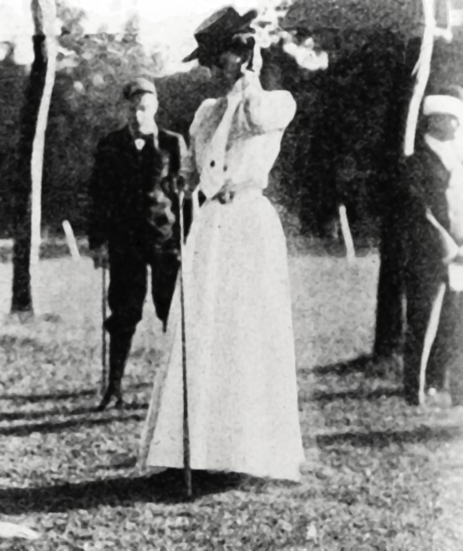 Margaret Ives Abbott (June 15, 1876 – June 10, 1955) was the first American woman to take first place in an Olympic event